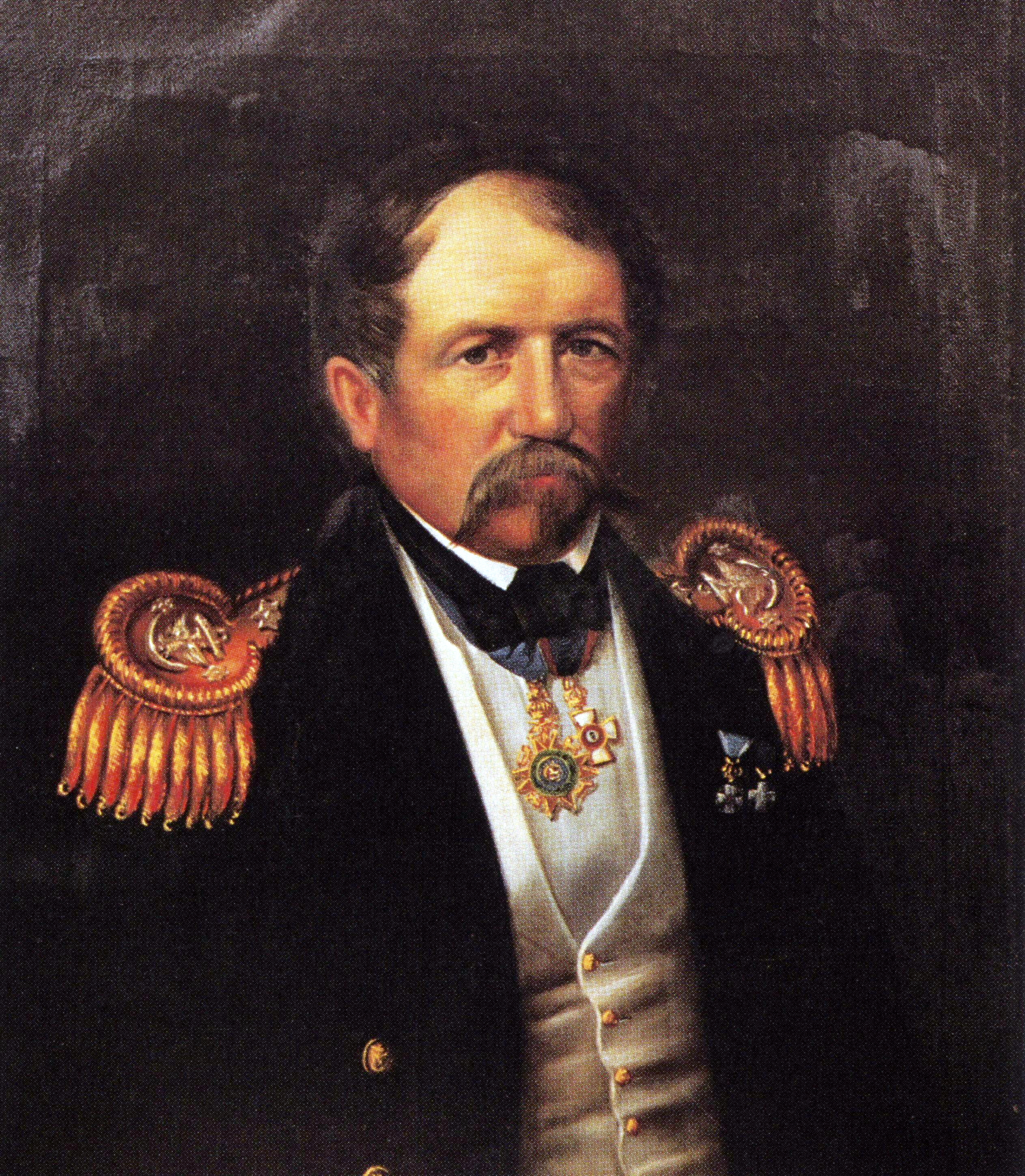 Rudolf Brommy